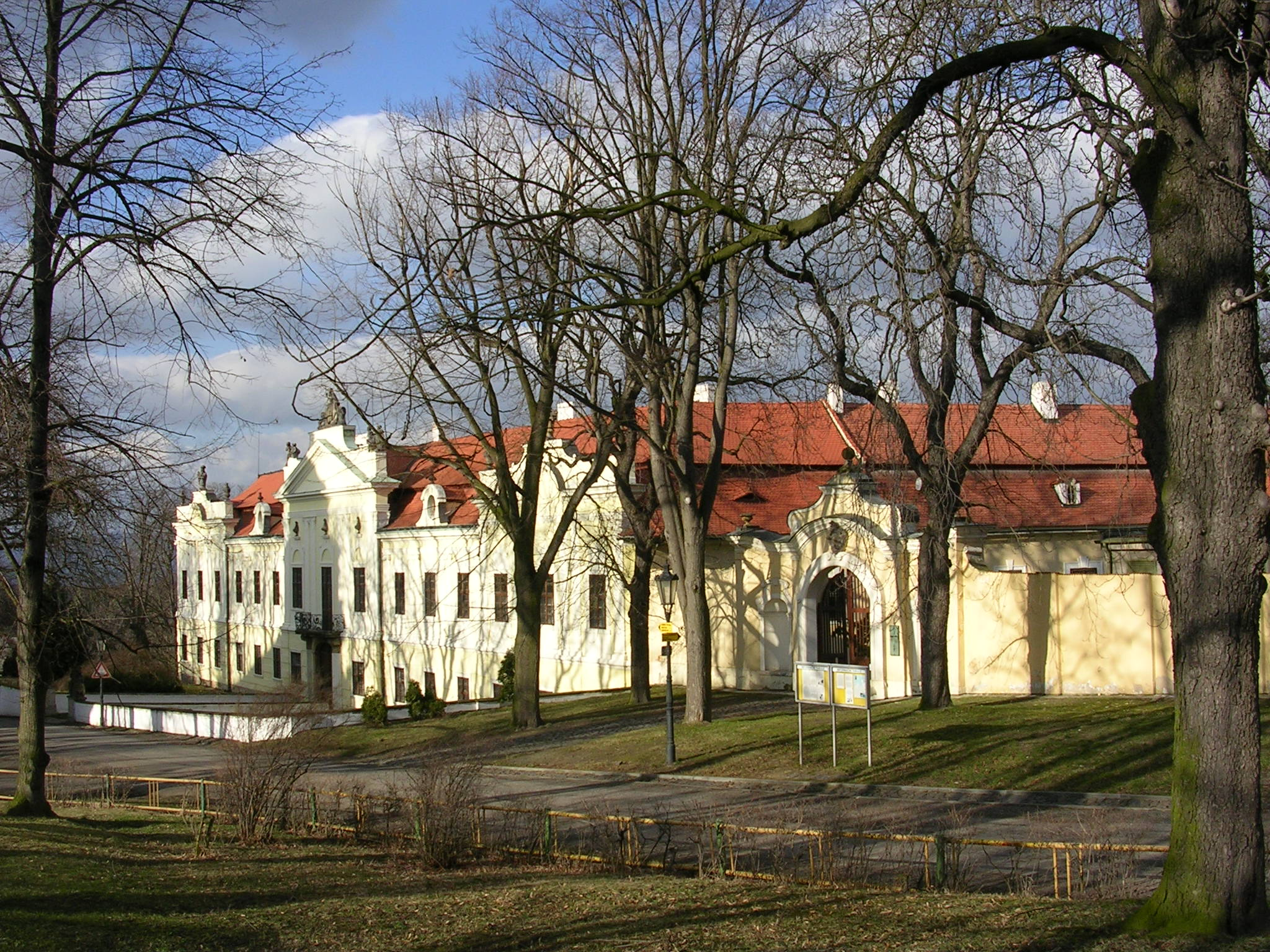 Castle in Peruc, Louny District, Ústí nad Labem Region, the Czech Republic. - OpenStreetMap(Info)